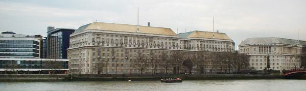 MI5 Building Thames House taken by C Ford. 6th March 04. (from wikipedia)